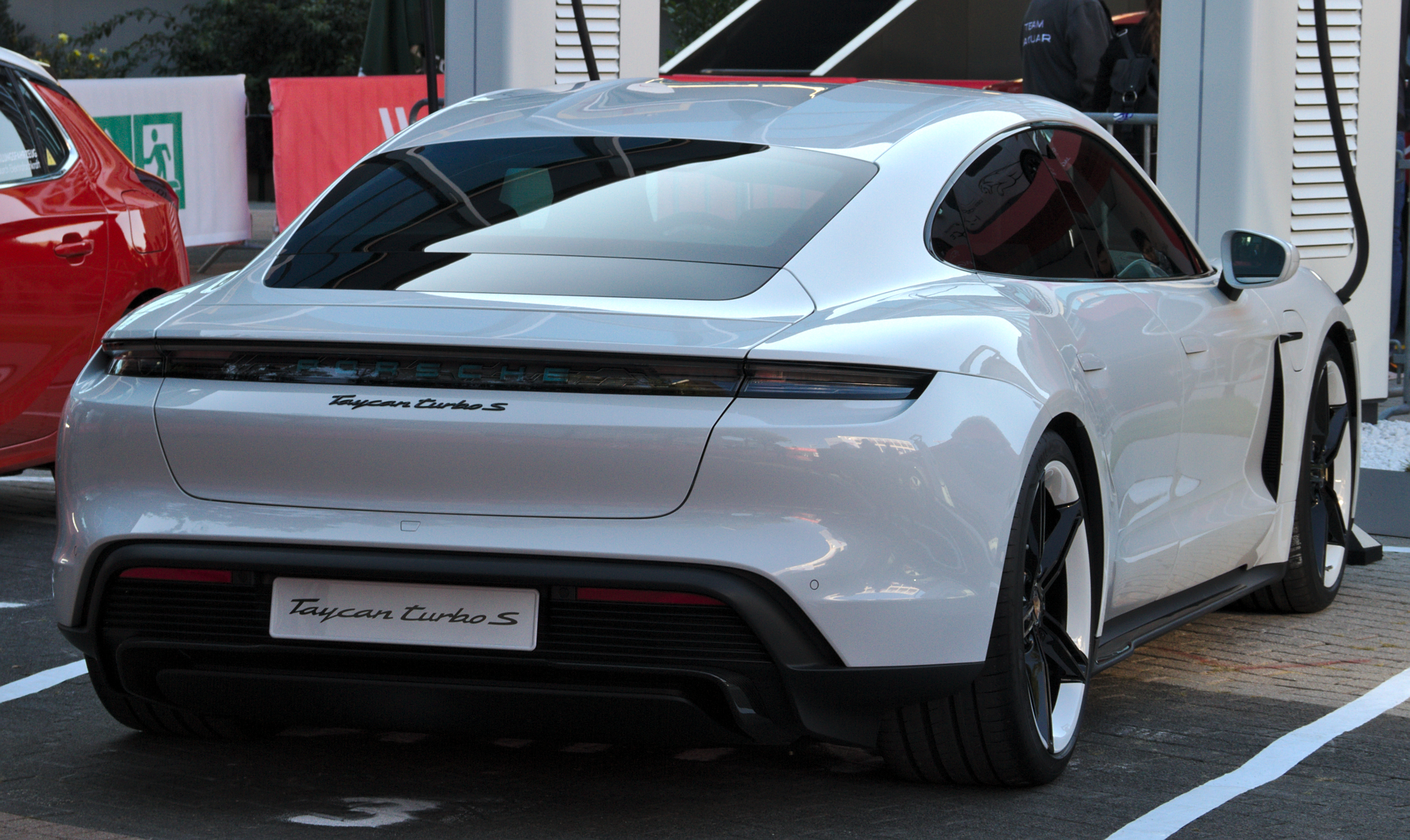 Porsche_Taycan at IAA 2019